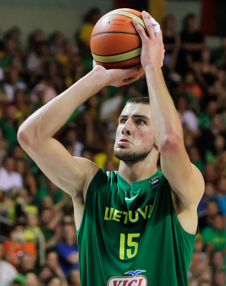 Jonas Valanciunas, member of the Lithuanian Under-19 basketball team, which competed in the 2011 FIBA Under-19 World Championship in Latvia